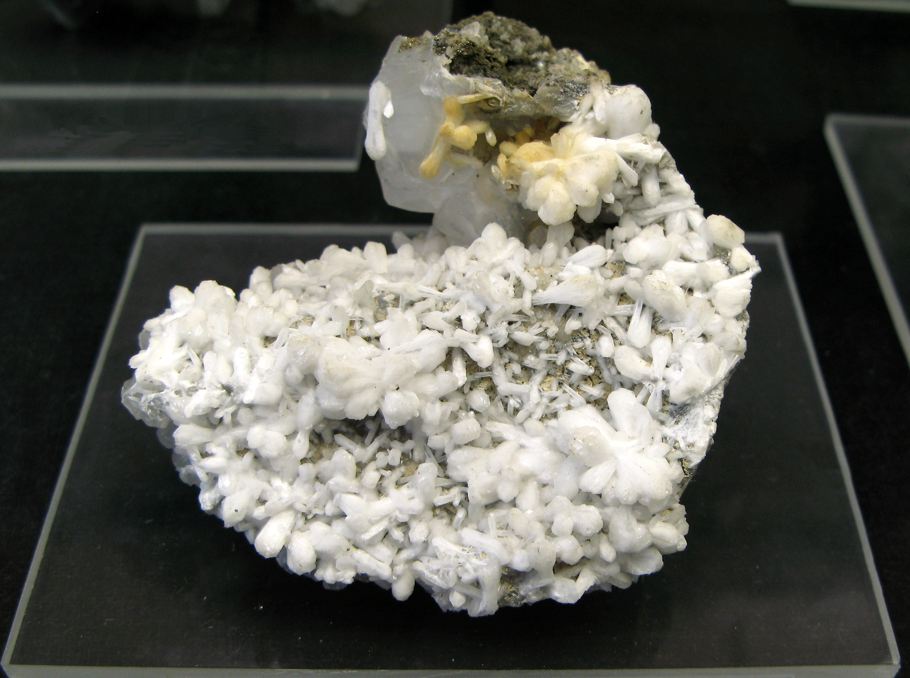 Stilbite on Calcite - Locality: St. Andreasberg, Harz, Germany - Exposed in the Mineralogical Museum, Bonn, Germany